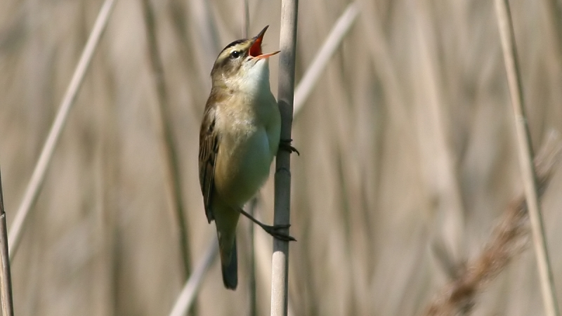 Sedge Warbler (Acrocephalus schoenobaenus)